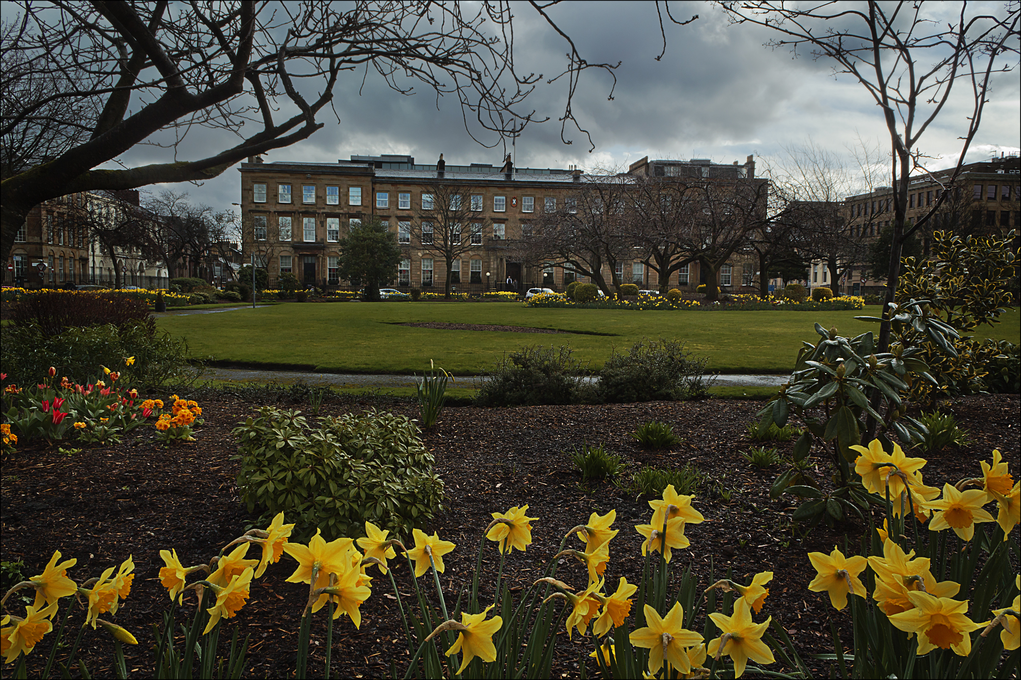 Glasgow